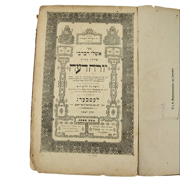 Shulchan Aruch Yoreh Deah, Lemberg, 1870.